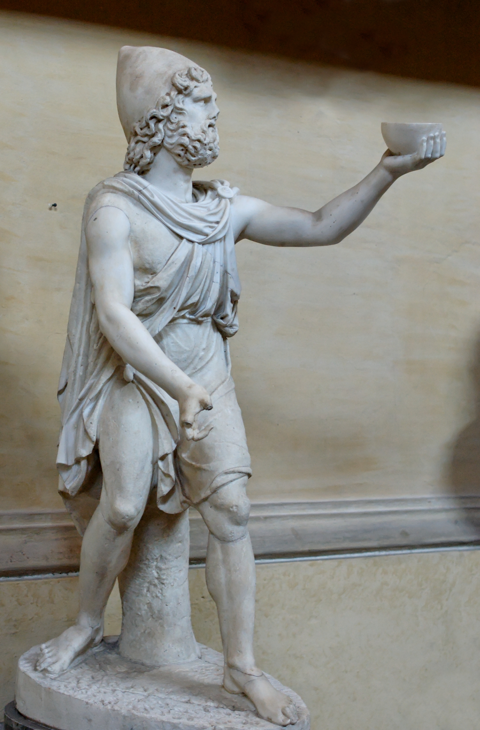 Odysseus. Marble, copy of the Flavian era after an original of the late Hellenistic period.